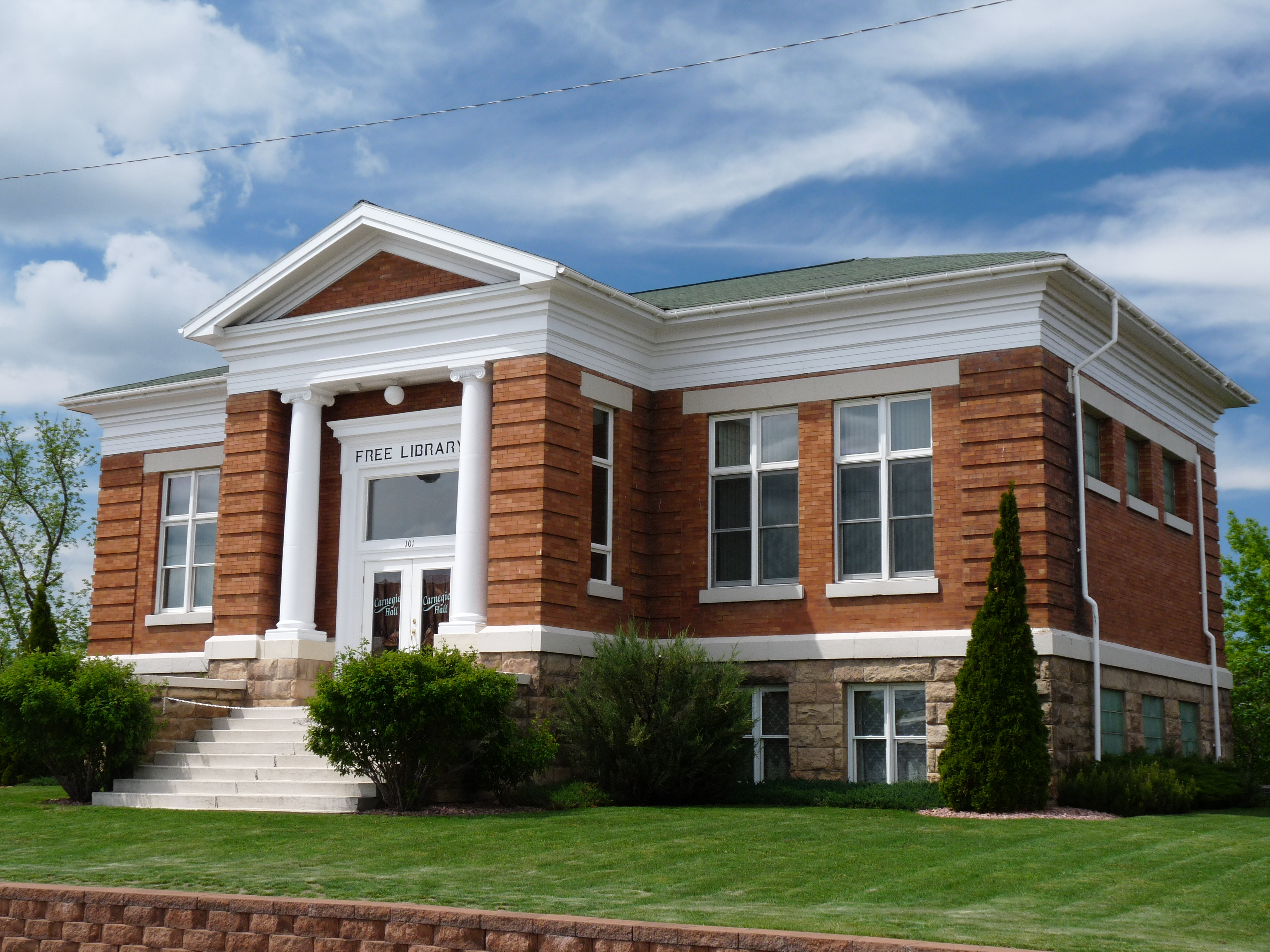 Public library in Ladysmith, Wisconsin, designed by Claude and Starck and built in 1907. Now a bed and breakfast.